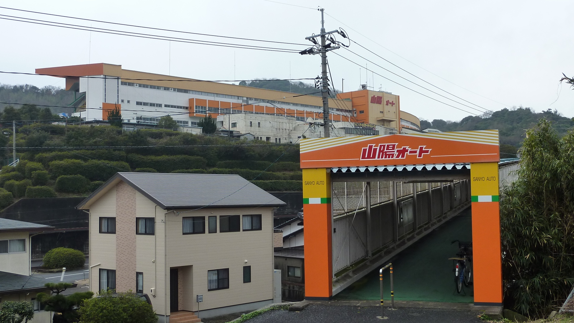 Sanyo Auto (Sanyo-Onoda City, Yamaguchi, Japan)